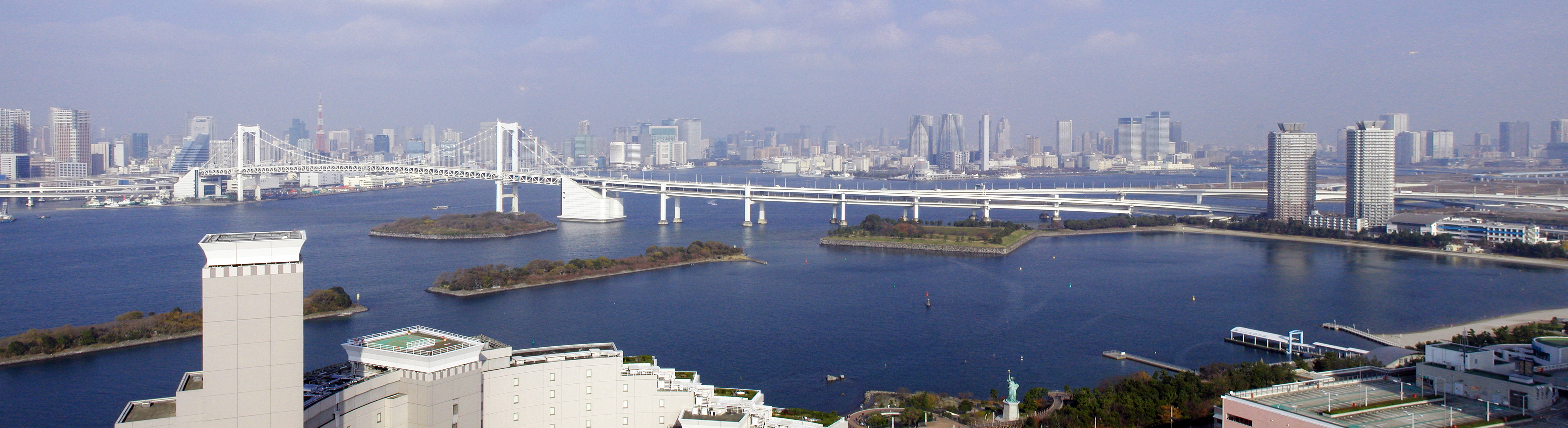 Rainbow Bridge (Tokyo) and Northern Tokyo Bay facing Tokyo